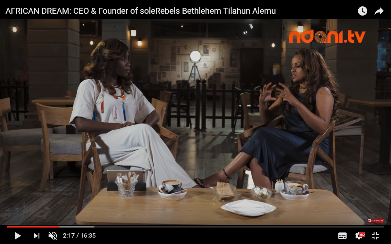 Agnes Edihan Marquis interviews SoleRebels CEO Bethlehem Tilahun Alemu for NdaniTV on 19 June 2017